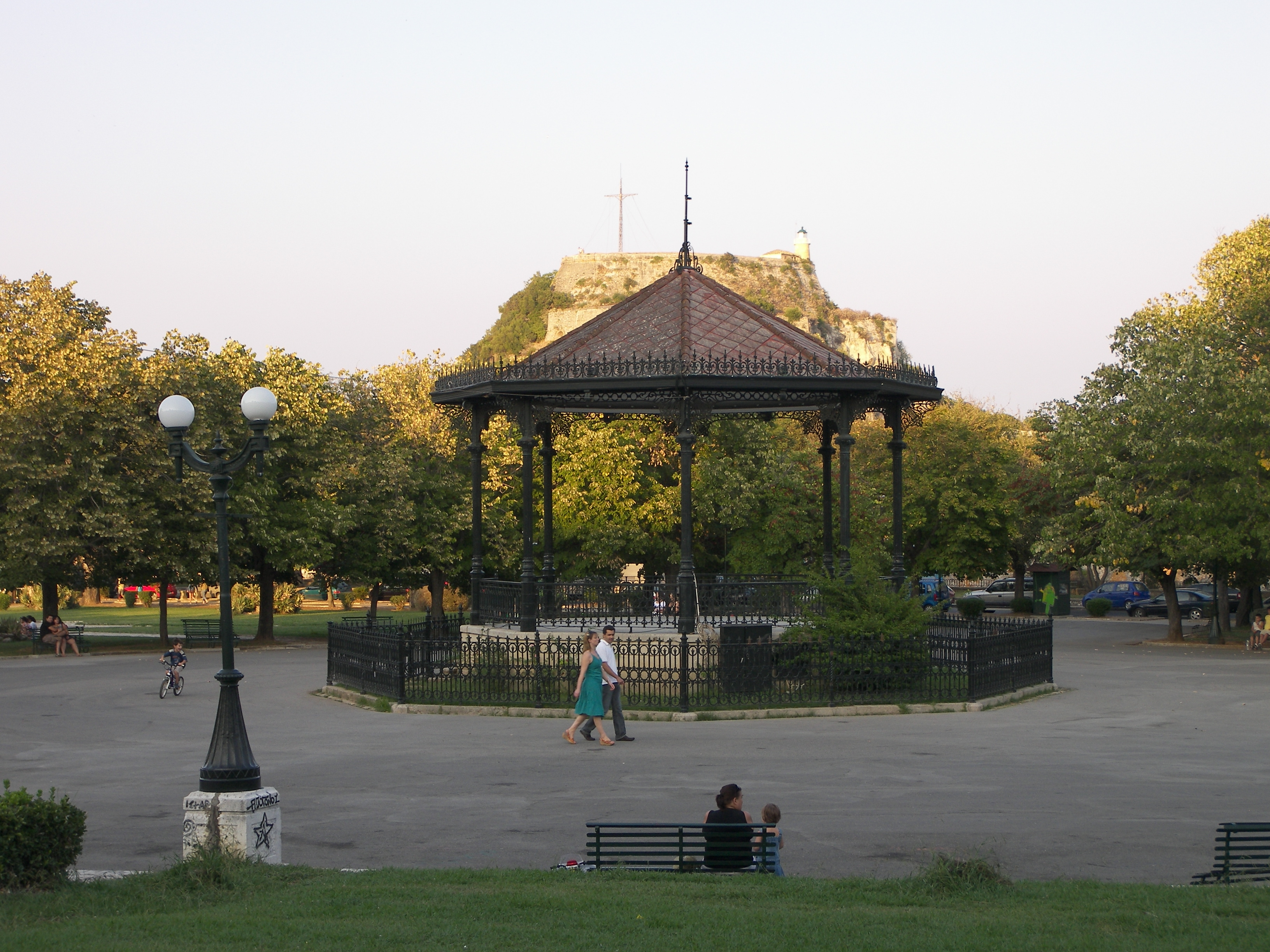 Please see filename